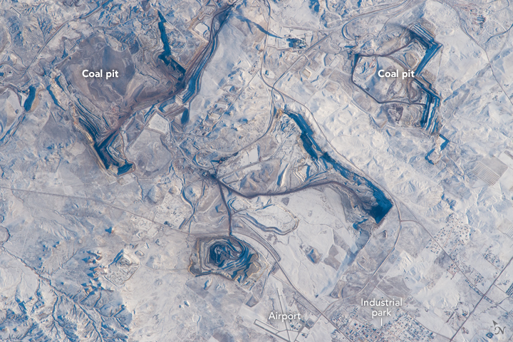 The image shows angular gashes in the snow-covered landscape of northeastern Wyoming. The astronaut’s eye was drawn to the open-cast pits of several coal mines that operate out of the small town of Gillette, which appears on the lower right. The coal lies at very shallow depth, making it economical to mine. The steep walls of the overlying rocks cast strong shadows in this snowy scene. Wind distributes coal dust so that the pits appear much darker, especially the largest pit in the view (upper left). For scale, the longer arm of the Gillette airport measures 1.43 kilometers (0.9 miles). The Powder River Basin, situated between the Bighorn Mountains and the Black Hills, is a major source of low-sulfur coal, helping to make Wyoming one of the largest coal producers in the United States. The county where Gillette is situated has the highest average income in the state of Wyoming, although employment in the energy industry has started to decline slightly in the past few years.